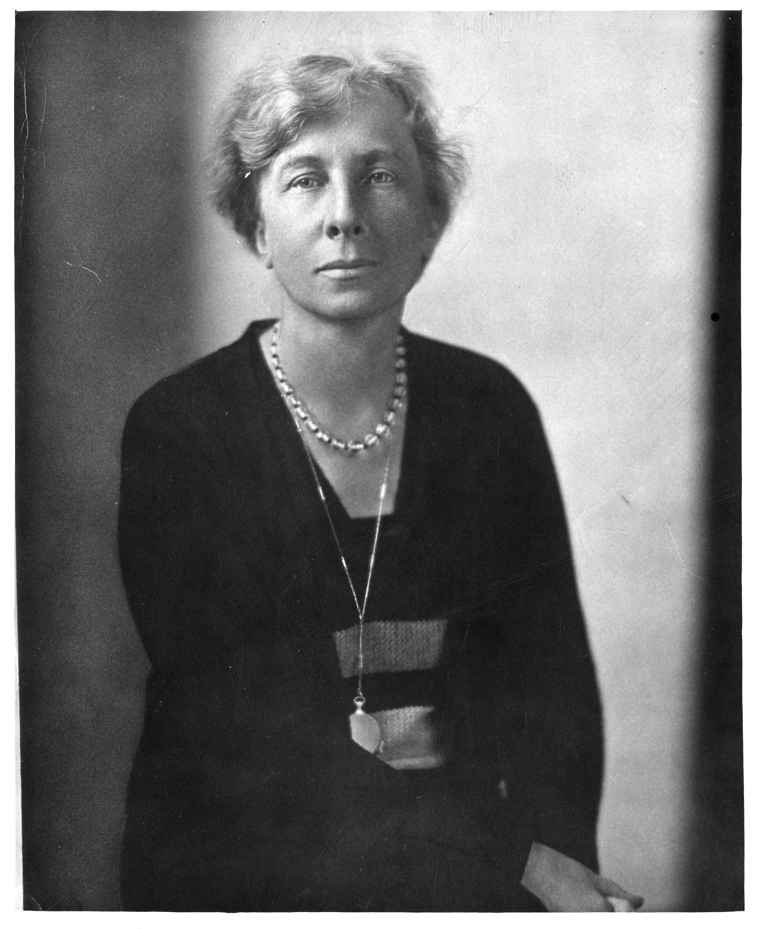 Description: Lillian Moller Gilbreth (1878-1972) earned a Ph.D. in psychology from Brown University but is best known, along with her husband Frank Bunker Gilbreth, for revolutionizing management techniques. In Cheaper by the Dozen (1948), their children lovingly described life in the unusually "efficient" Gilbreth family. This photograph was distributed during the Great Depression when Lillian Gilbreth chaired the Women's Division of the President's Emergency Committee for Employment, working on how "to assist needy families in buying health protection with their food money." Creator/Photographer: Harris & Ewing Medium: Black and white photographic print Persistent URL: [1] Repository: Smithsonian Institution Archives Collection: Science Service Records, 1902-1965 (Record Unit 7091) - Science Service, now the Society for Science & the Public, was a news organization founded in 1921 to promote the dissemination of scientific and technical information. Although initially intended as a news service, Science Service produced an extensive array of news features, radio programs, motion pictures, phonograph records, and demonstration kits and it also engaged in various educational, translation, and research activities. Accession number: SIA2008-1924